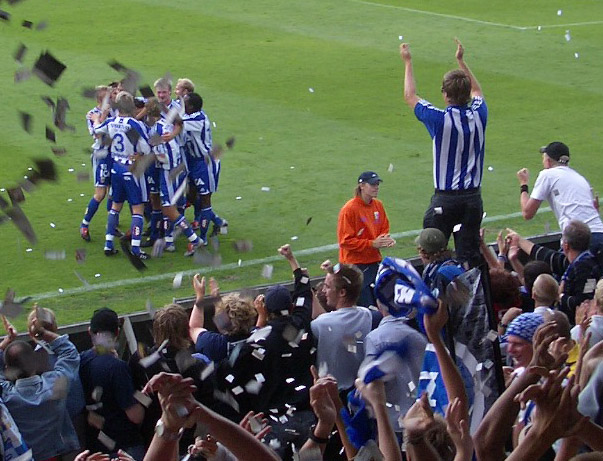 IFK Göteborg, a swedish footballteam, celebrating a goal in a match against swedish team Örebro SK